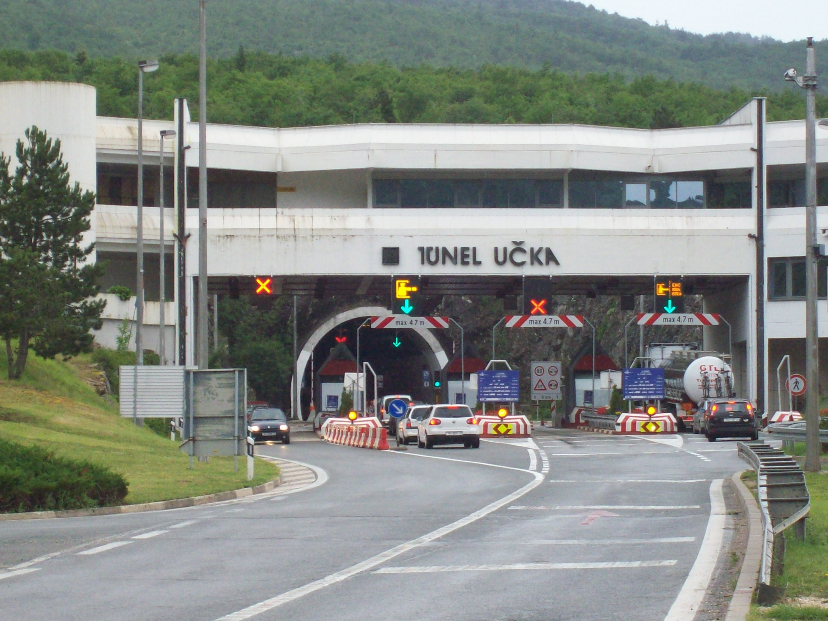 Tunel Učka - west entry